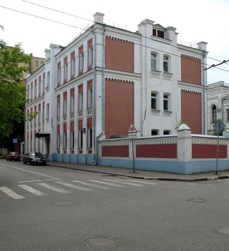 Malaya Ordynka Street, Moscow